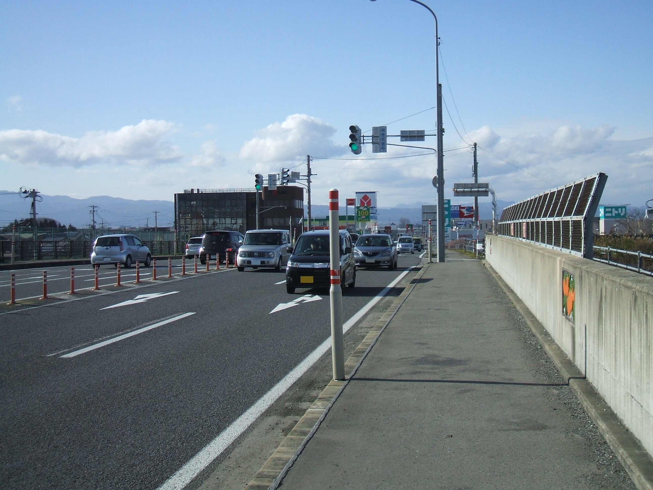 A Landscape form Japanese National Road Route 49 at Machikita-town, Aizuwakamatsu, Fukushima.